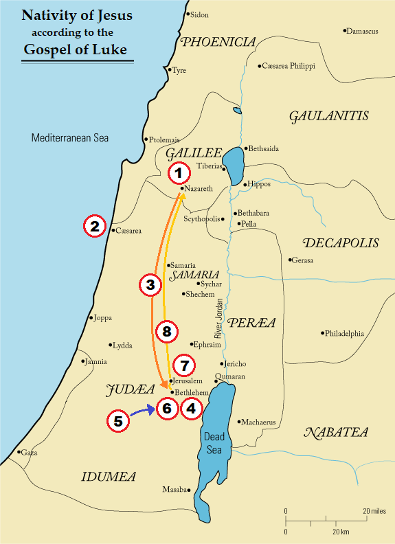 Map of the events in the Nativity of Jesus narrative found in the Gospel according to Luke. 1. Annunciation to Mary in Nazareth 2. Census of Quirinius (6–7 CE) (allegedly commissioned by emperor Augustus in Rome, historically carried out by prefect Coponius of Judea from Caesarea, supervised by governor Quirinius of Syria from Antioch) 3. Joseph and Mary travel from Nazareth to Bethlehem 4. Birth of Jesus in Bethlehem 5. Annunciation to the shepherds in the fields (location of the fields unknown, but they are said to be 'nearby' or 'in the same region' of Bethlehem, Luke 2:8) 6. Adoration of the shepherds in Bethlehem 7. Presentation of Jesus at the Temple in Jerusalem 8. Joseph, Mary and Jesus return home to Nazareth Map taken from File:First century Iudaea province.gif. Borders reflect the situation before the death of Herod the Great in 4 BCE. Compare this map with File:Nativity of Jesus map – Gospel of Matthew.png.